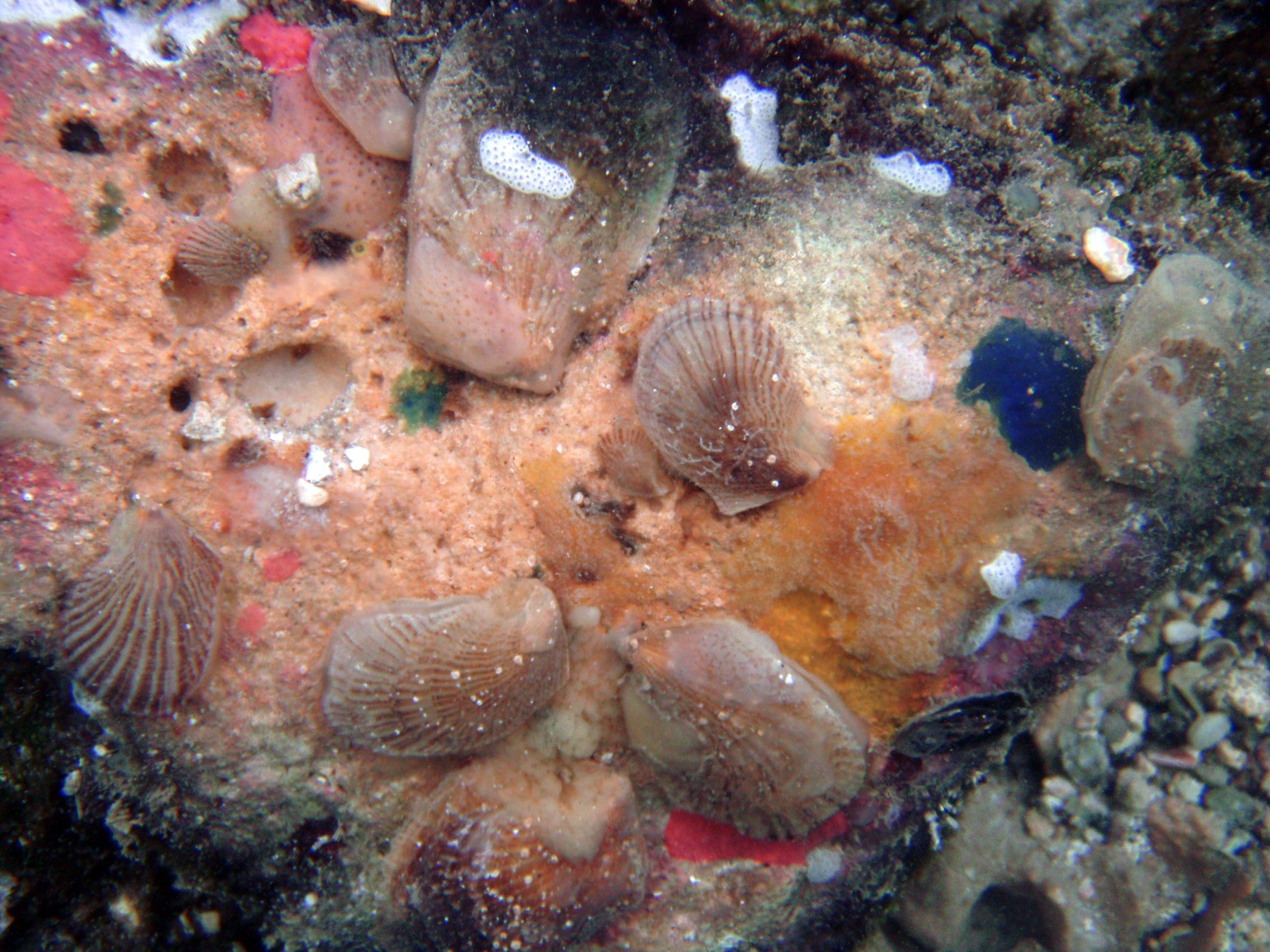 The shells in Tidepool in Kona, Hawaii